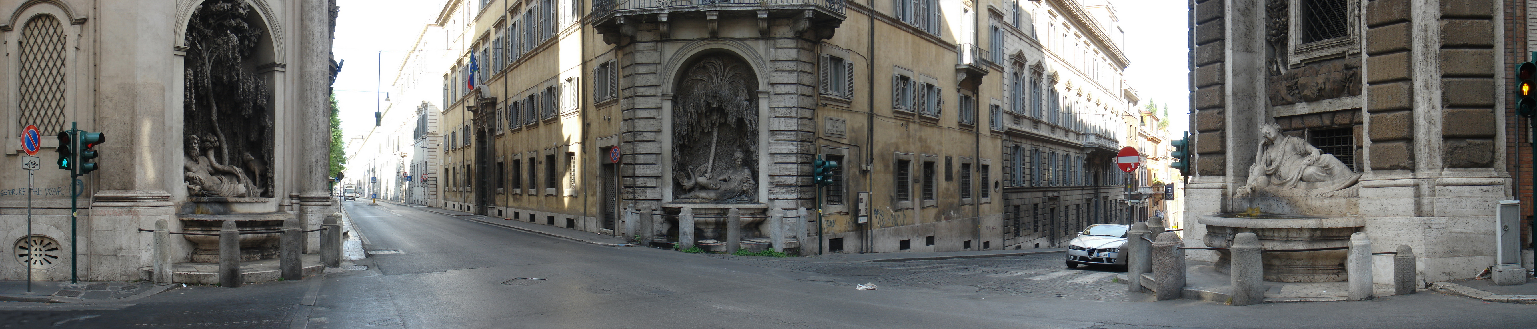 Crossing of Via delle Quattro Fontane and Via del Quirinale in Roma, 270 deg panoramic shows three of four fountains